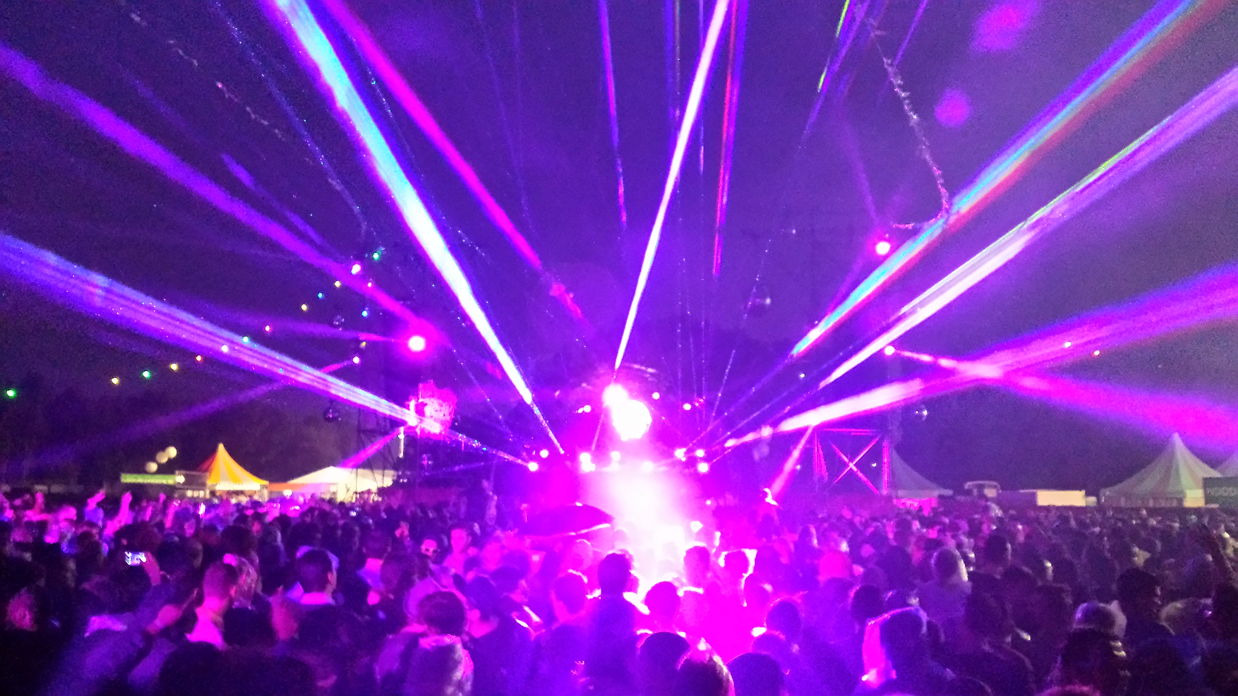 Netsky performing at Liquicity Festival 2015, Diemerbos near Amsterdam.